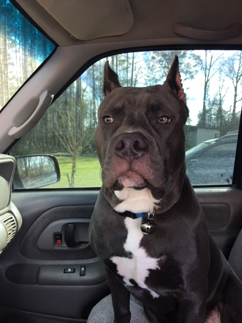 In the United States, it is popular it crop, or trim, pit bull terriers' ears. This grey color is often referred to as 'blue.'